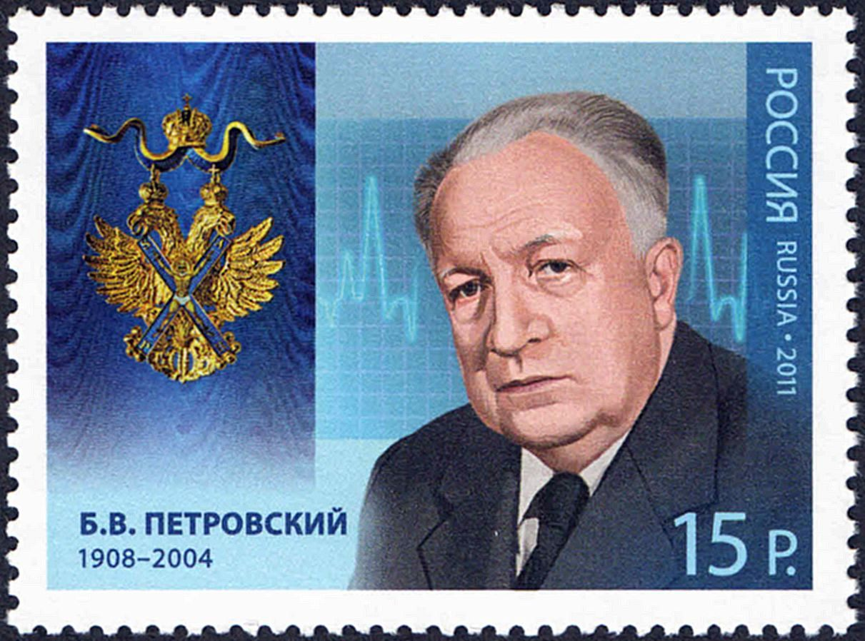 Recipients of the Order of St. Andrew the Apostle the First-Called (the ongoing series, issue I).Boris Petrovsky[1] (1908–2004), a Soviet and Russian surgeon, a statesman, a Full Member of the USSR Academy of Sciences and of USSR Academy of Medical Sciences, the Minister of Health of the USSR in 1965–1980.There depicted the badge of the Order of St. Andrew on the left.The stamp of Russia, 15.00 Rubles, 1 September 2011, PTC Marka Catalogue No 1510, Michel No 1742. Coated paper. Offset printing, varnish coating. Perforation: comb 12×11½. Size of the stamp: 50×37 mm. Print run: 440,000.